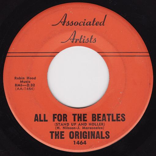 Scan of Associated Artists 1464 A